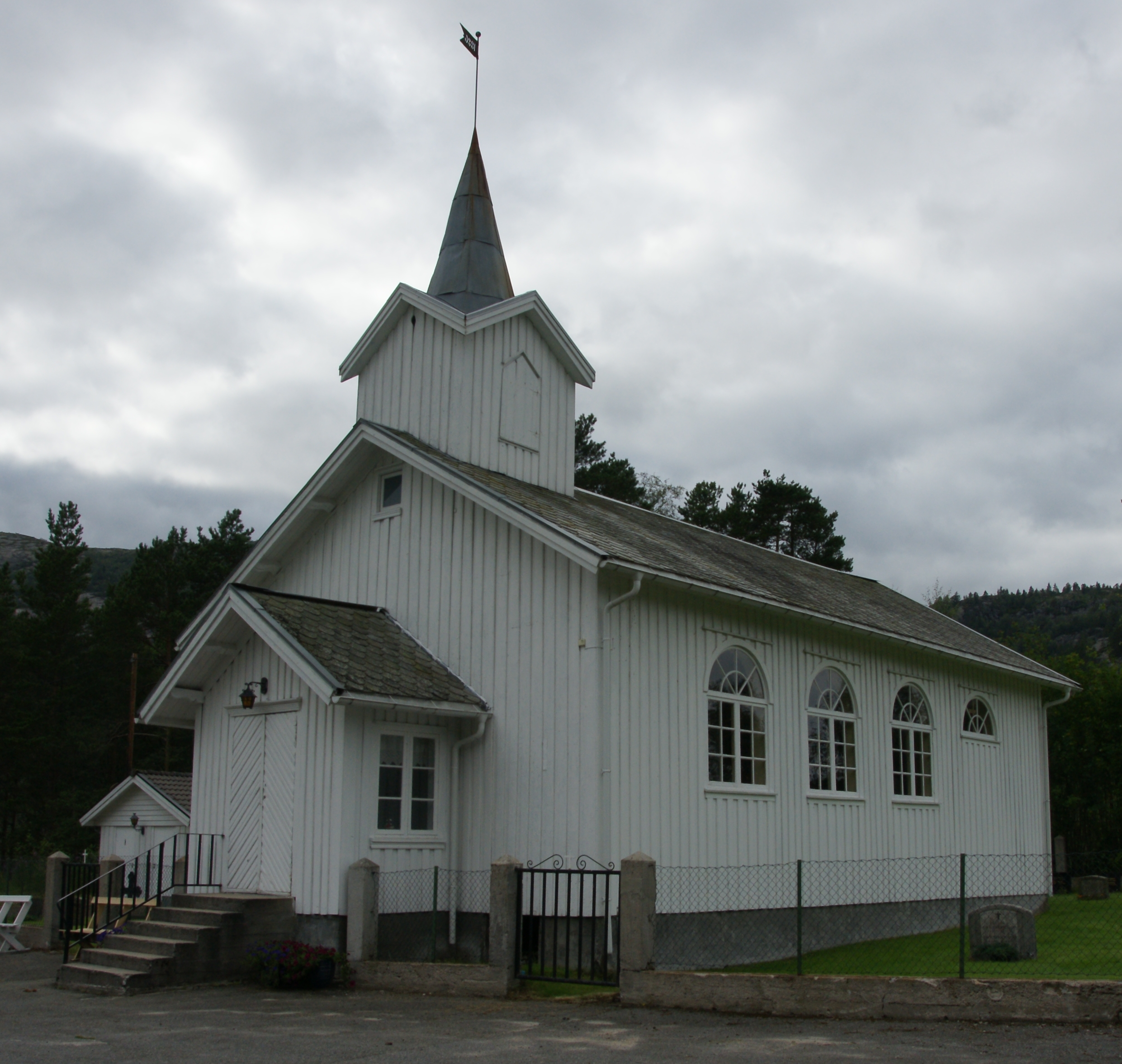 Netlandsnes kapell